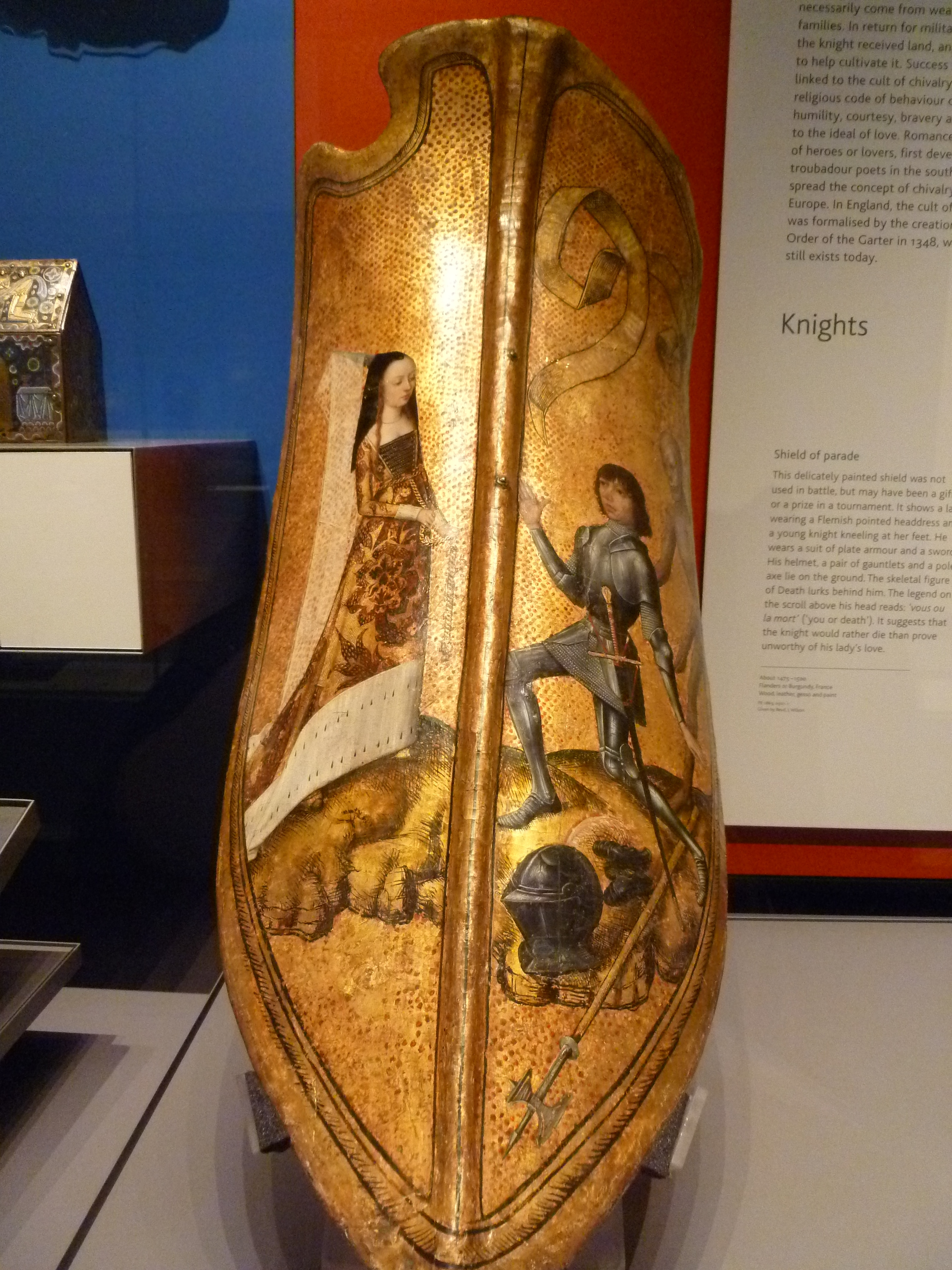 Double seal of Joanna Plantagenet; both of her marriages are represented on this seal.